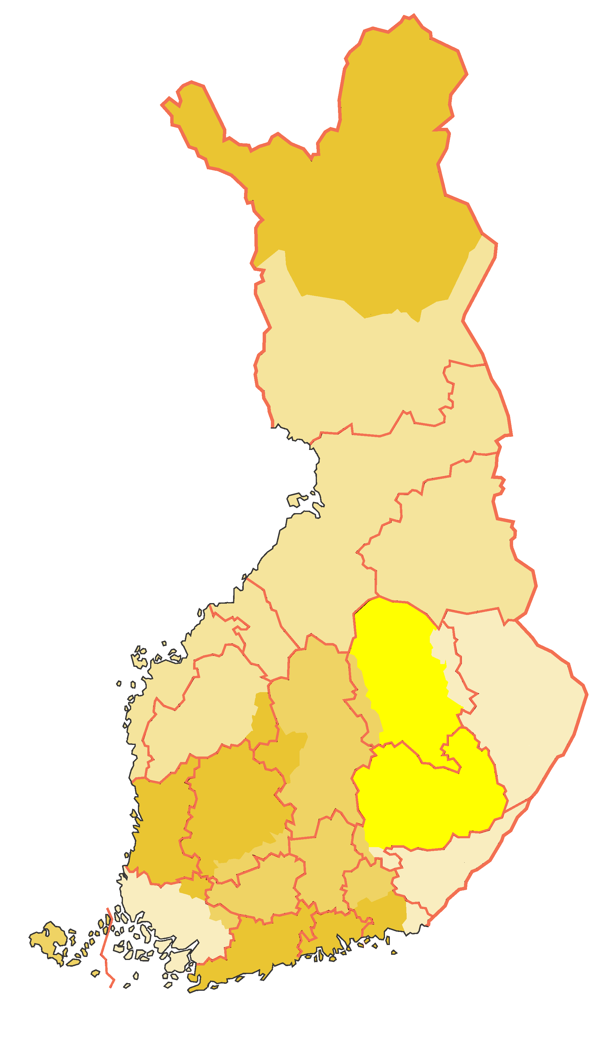 Historical province of Savonia in Finland